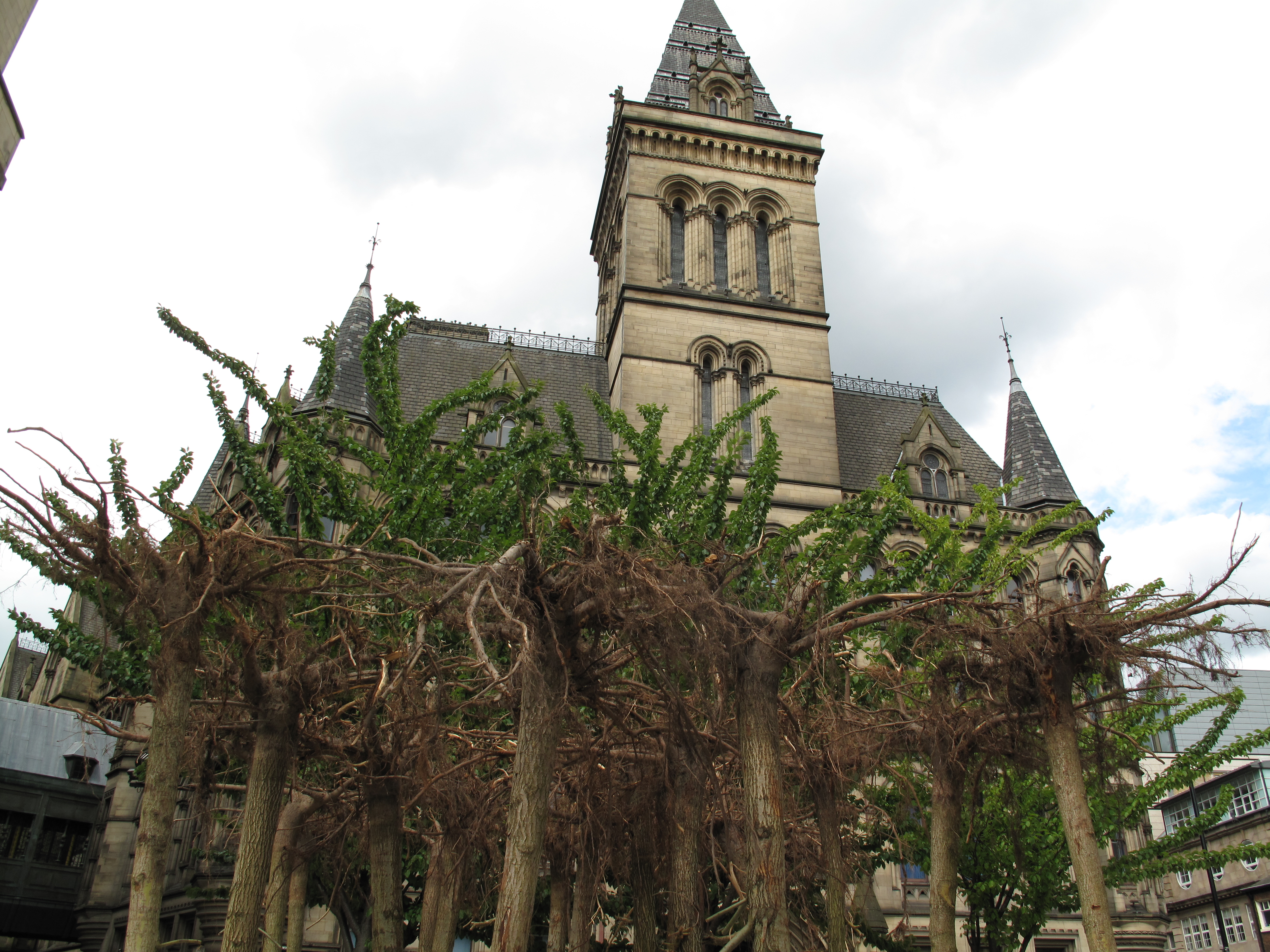 21 uprooted and overturned trees